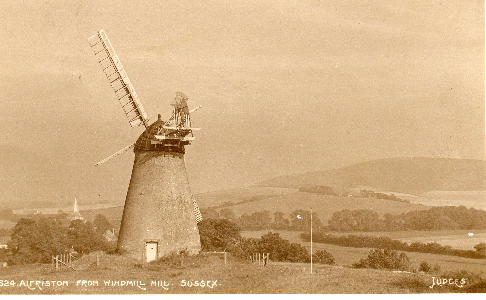 Alfriston Mill from and old postcard. Postally used 5-10-1905